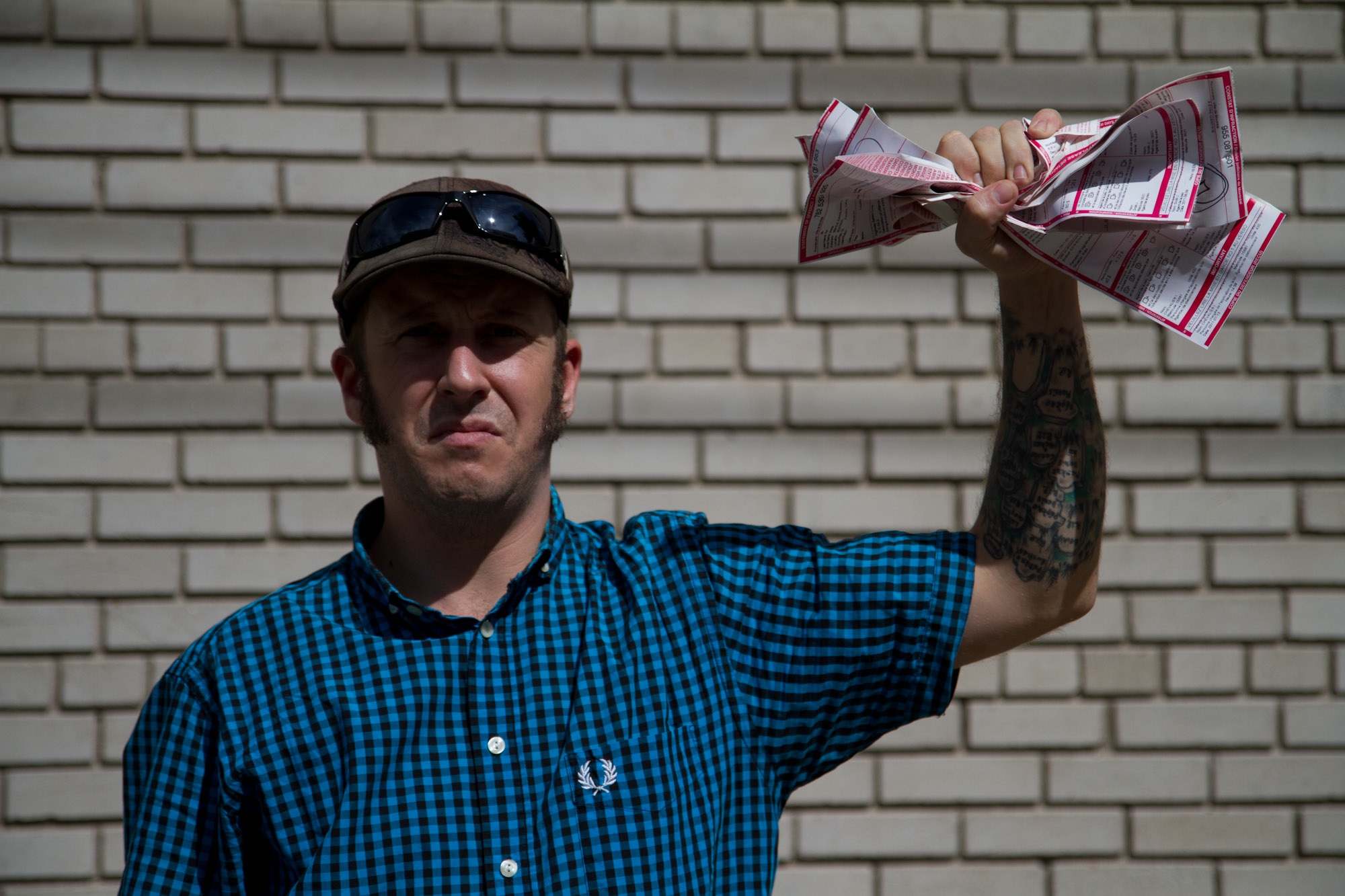 Roachpicsforticketsposter-3